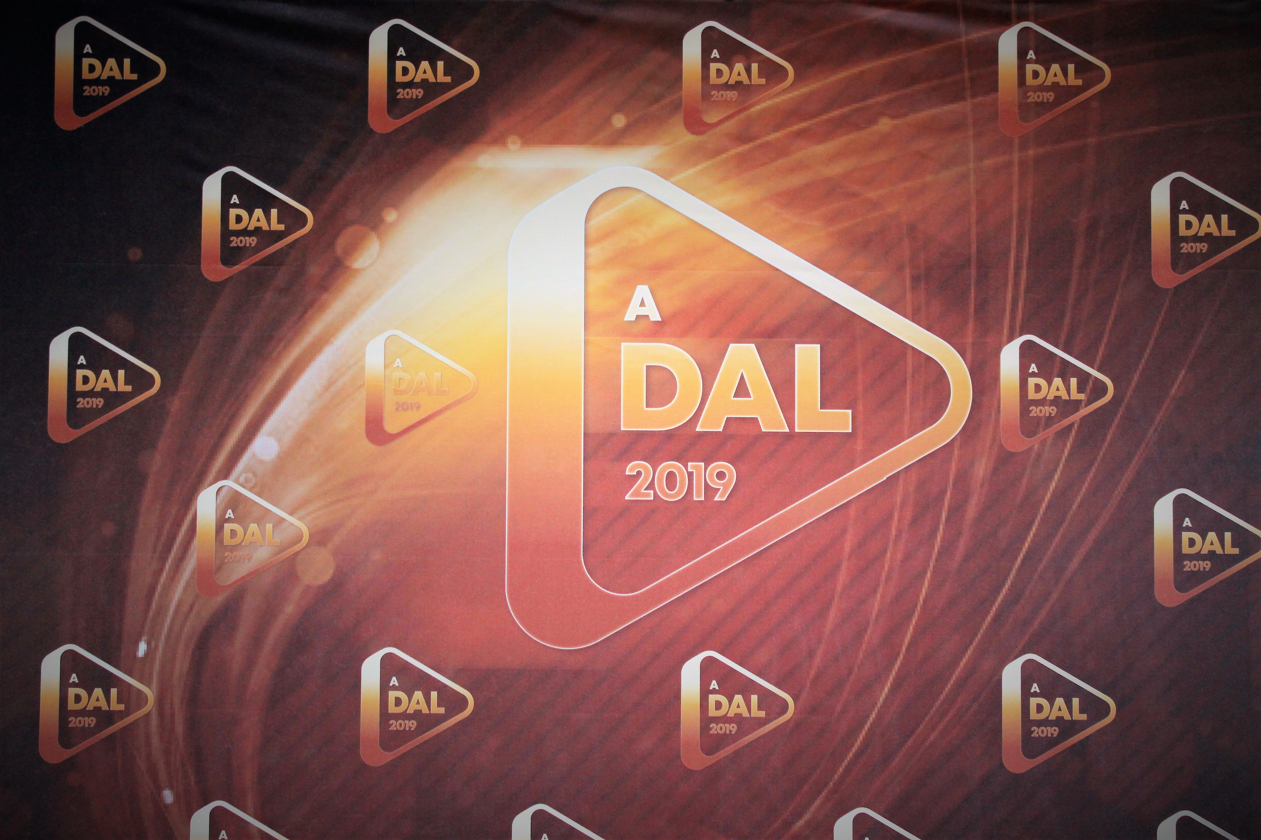 A Dal 2019 logo at the first press conference